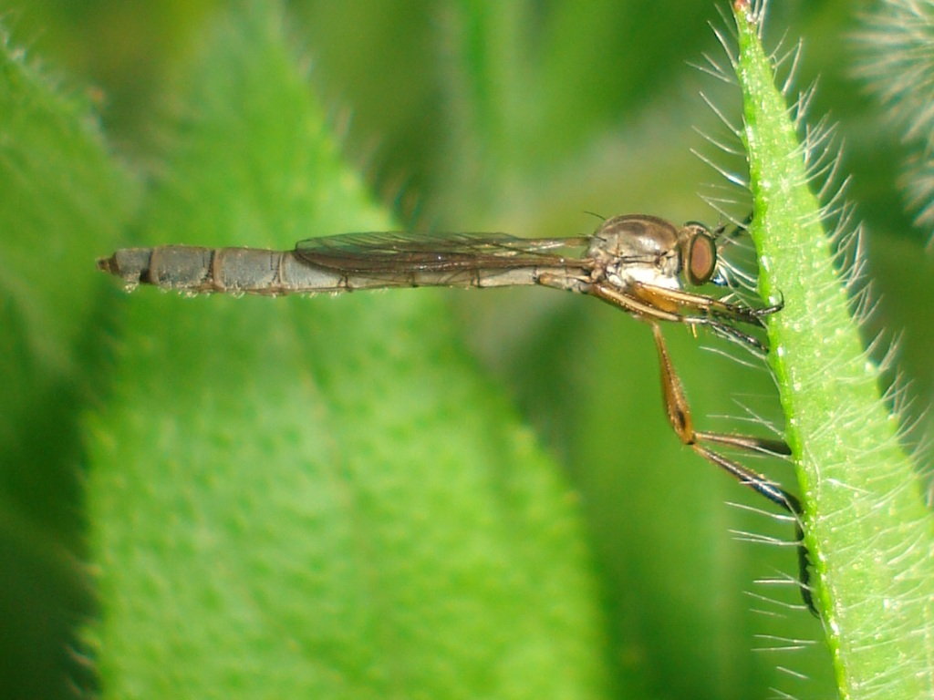 Striped Slender Robberfly (Leptogaster cylindrica)